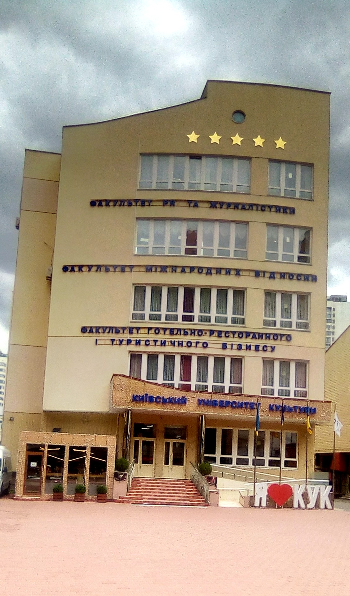 Poplavsky univercity in Kyiv